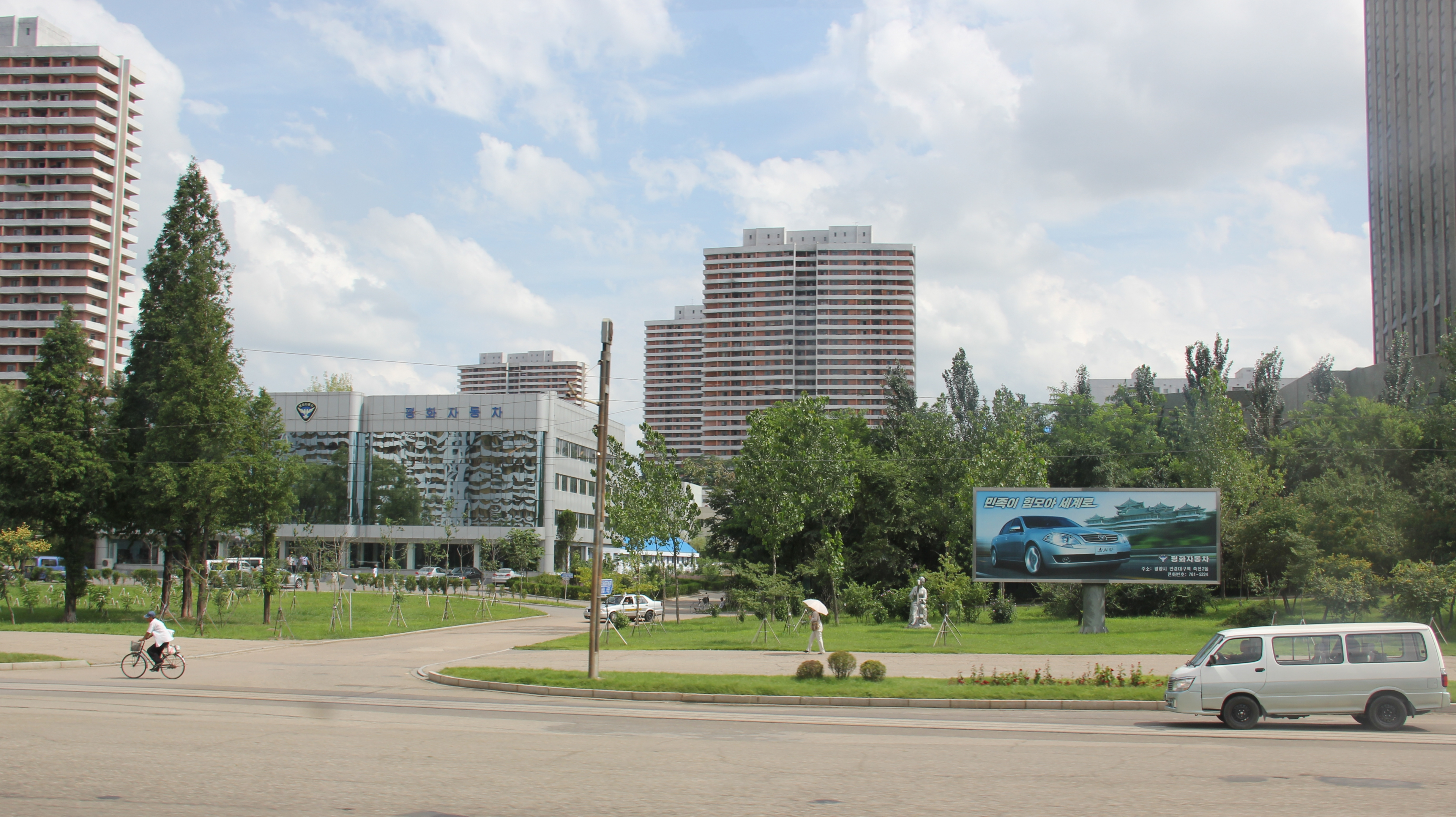 Pyeonghwa MotorsThe ad shows a Pyeonghwa Hwiparam III, the North Korean version of the Chinese Brilliance FSV.